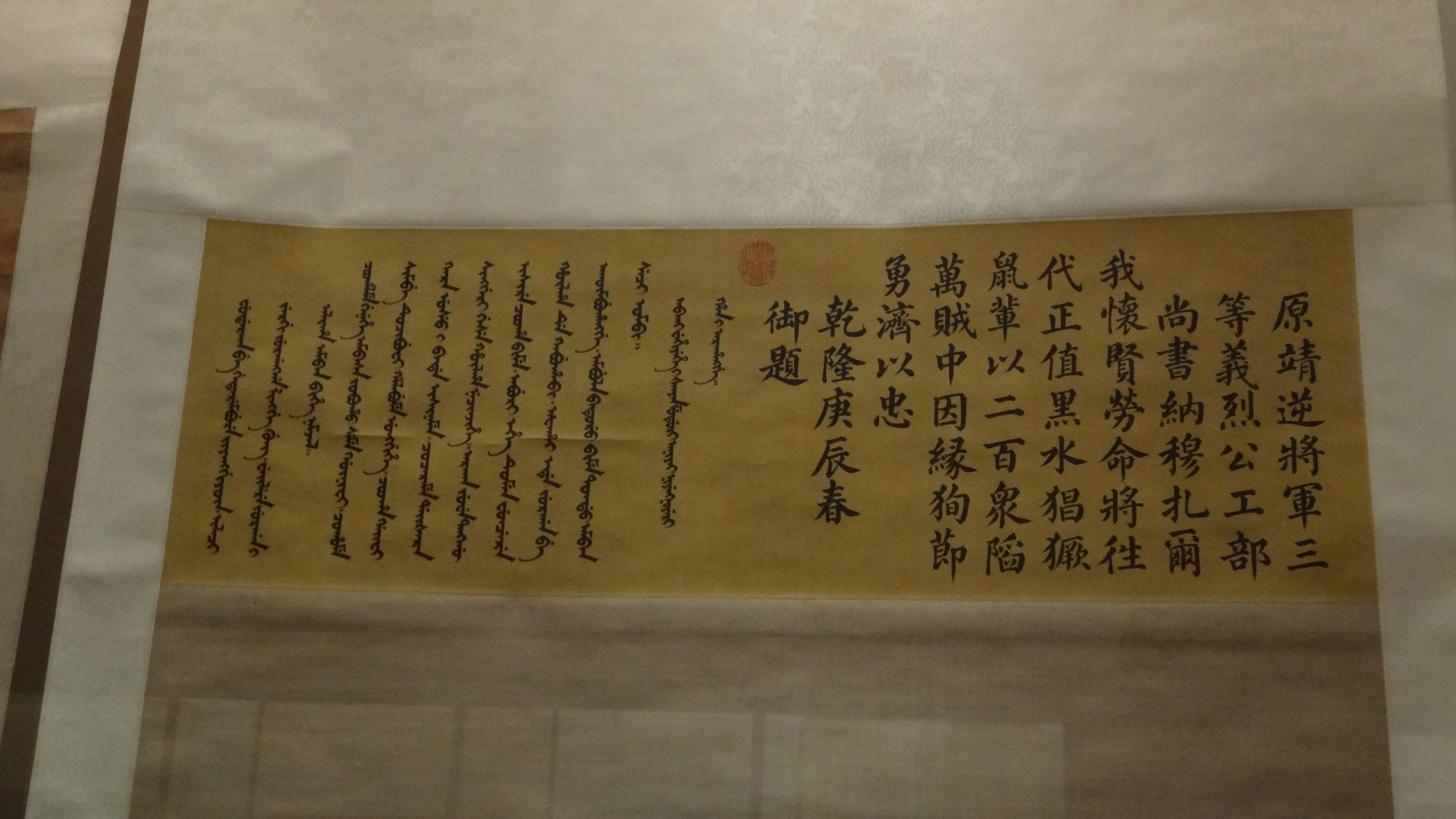 hand painted